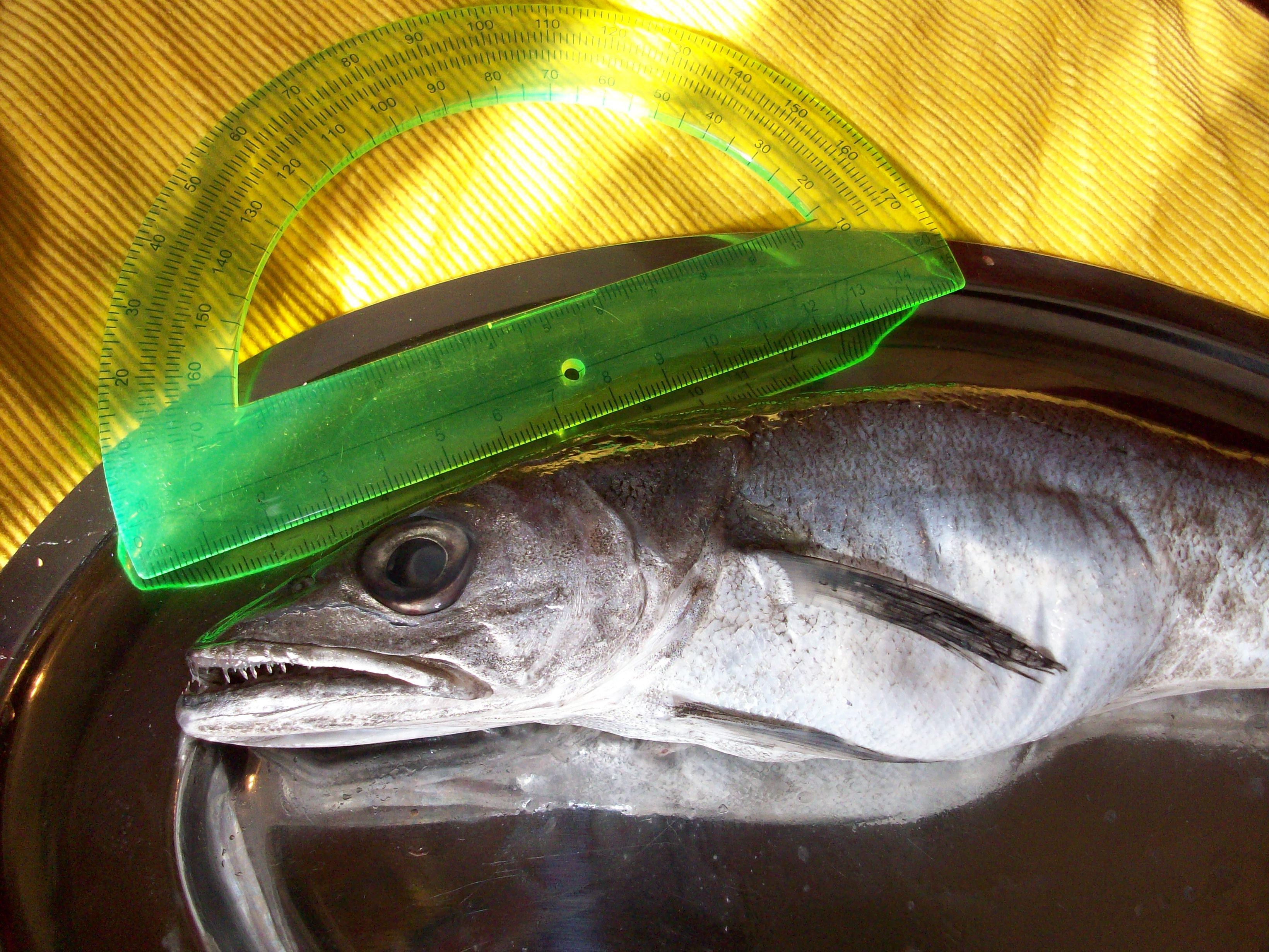 Meluccius merluccius head with centimeter